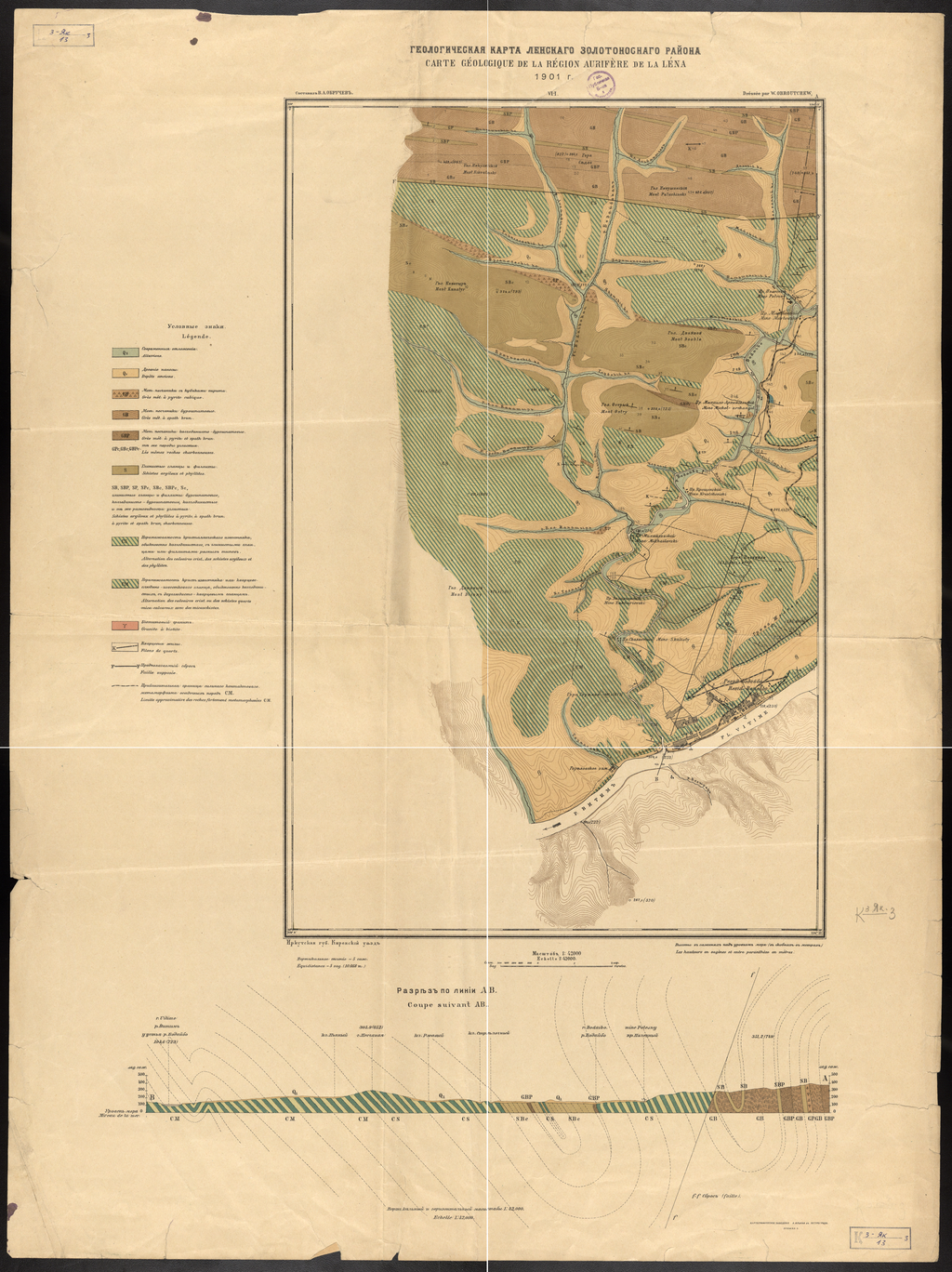 This map from 1901 depicts a gold mining area in eastern Siberia covering 12 versts (circa 11 kilometers) from north to south and 6 versts (circa 6.5 kilometers) from east to west. The area is located between the Lena and Vitim rivers in the Patom Highland, northwest of Lake Baikal. The map, which is in Russian and French, shows rivers, numerous gold mines, mountains, and highlands. The Vitim River, a large tributary of the Lena, one of the major rivers of Russia, is shown at the bottom of the map. Two other rivers, the Bodaibo and Bodaibokan, come down from the north and join with each other before flowing into the Vitim. At their confluence is the town of Bodaibo, marked on the map as Bodaibo Residence, a center of local gold mining. The legend on the left side of the map displays symbols for mineral deposits found in the area, including alluvium, sandstone containing pyrite, shale and phyllite, quartz veins, biotite granite, and other gold-bearing minerals. Gold first was discovered in the Lena River area in 1843. The gold mining industry developed rapidly in the late 19th century, so that by 1908 some 30,000 workers were employed in the Lena River gold fields.